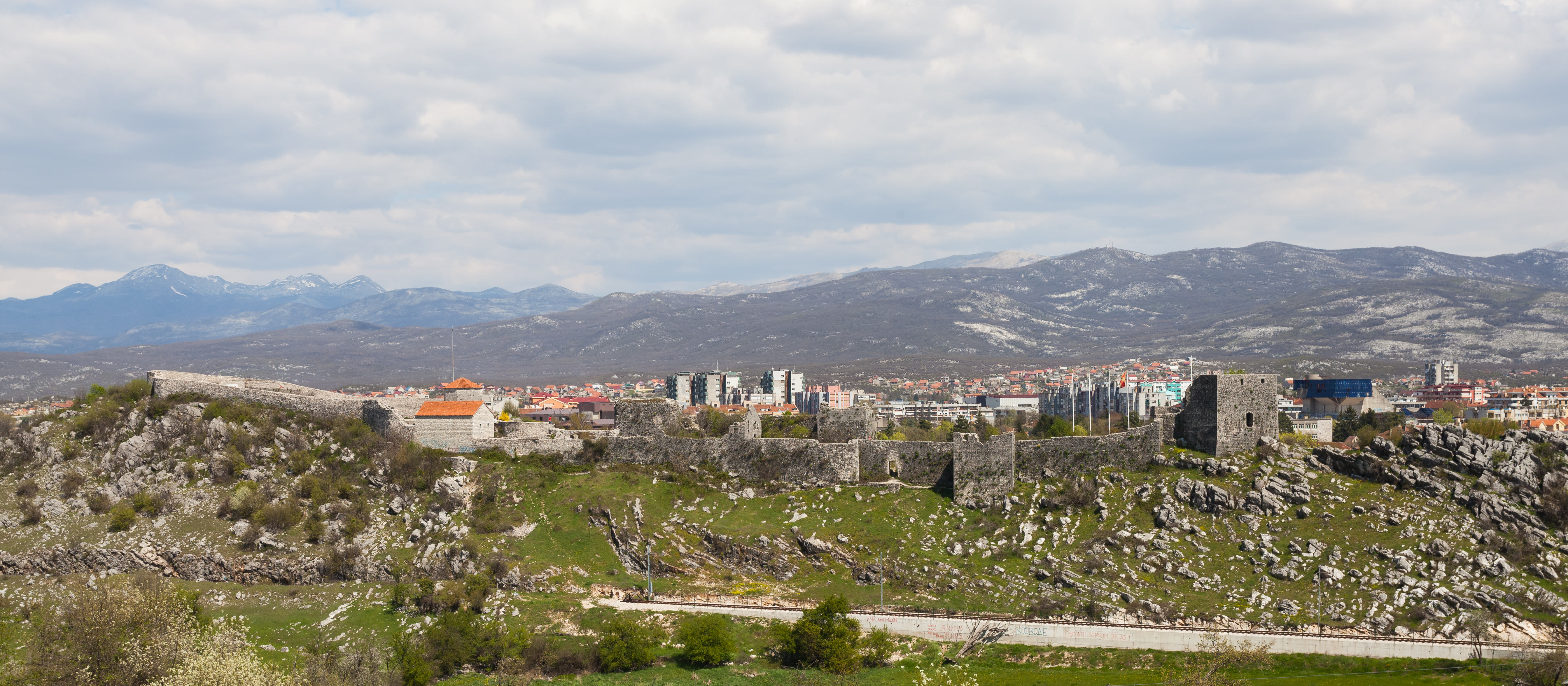 Castle of Bedem, Nikšić, Montenegro